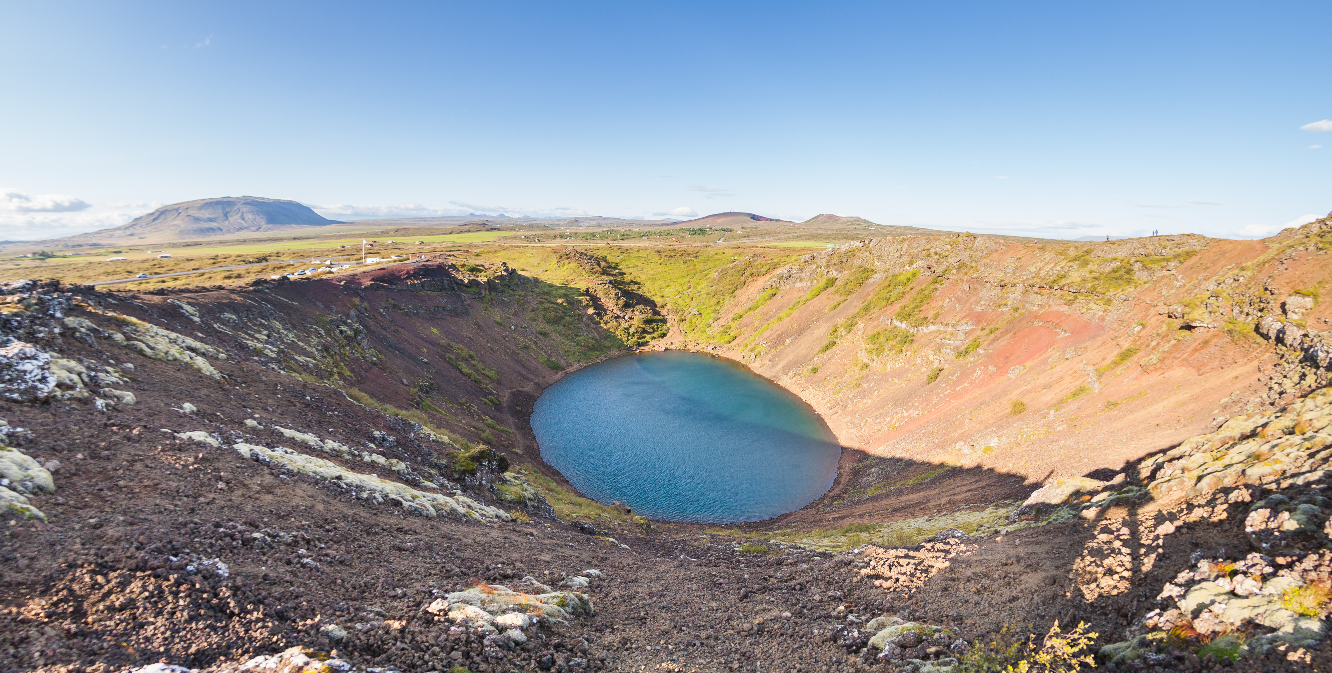 Kerið volcanic crater, Suðurland, Iceland